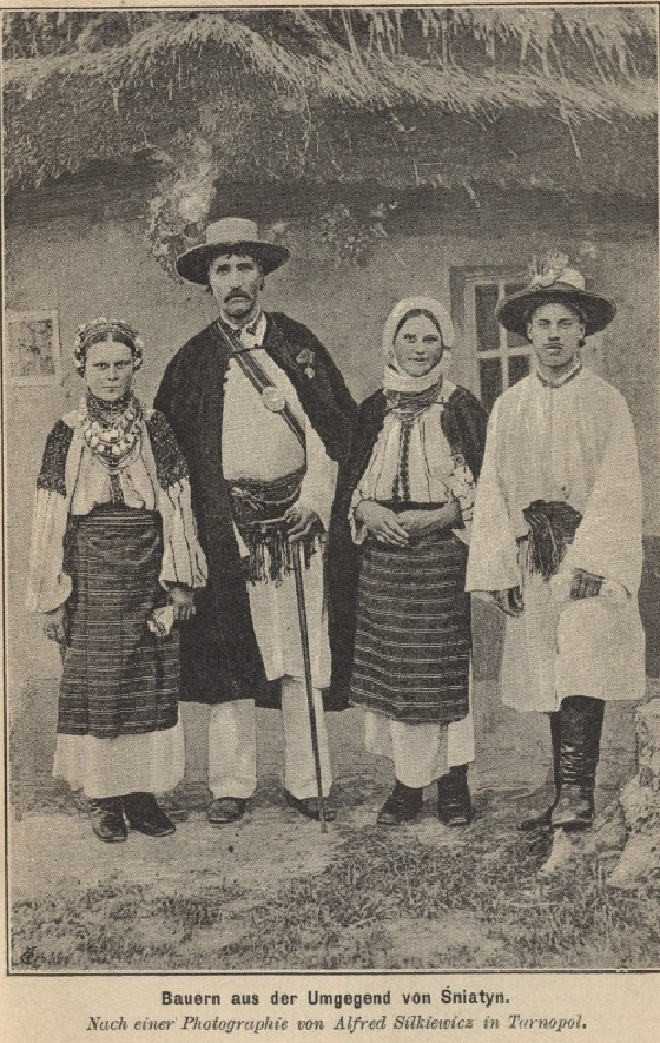 Pokuttya. Sniatyn